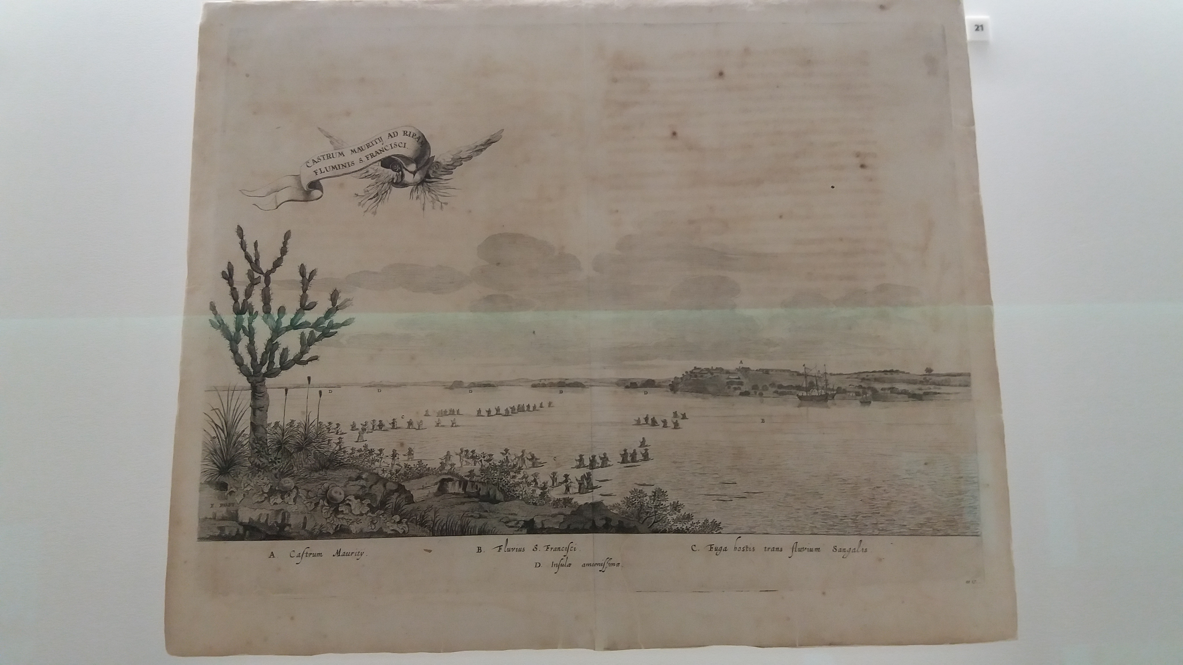 Image from the Frans Post Collection on display at Itaú Cultural, São Paulo, Brazil